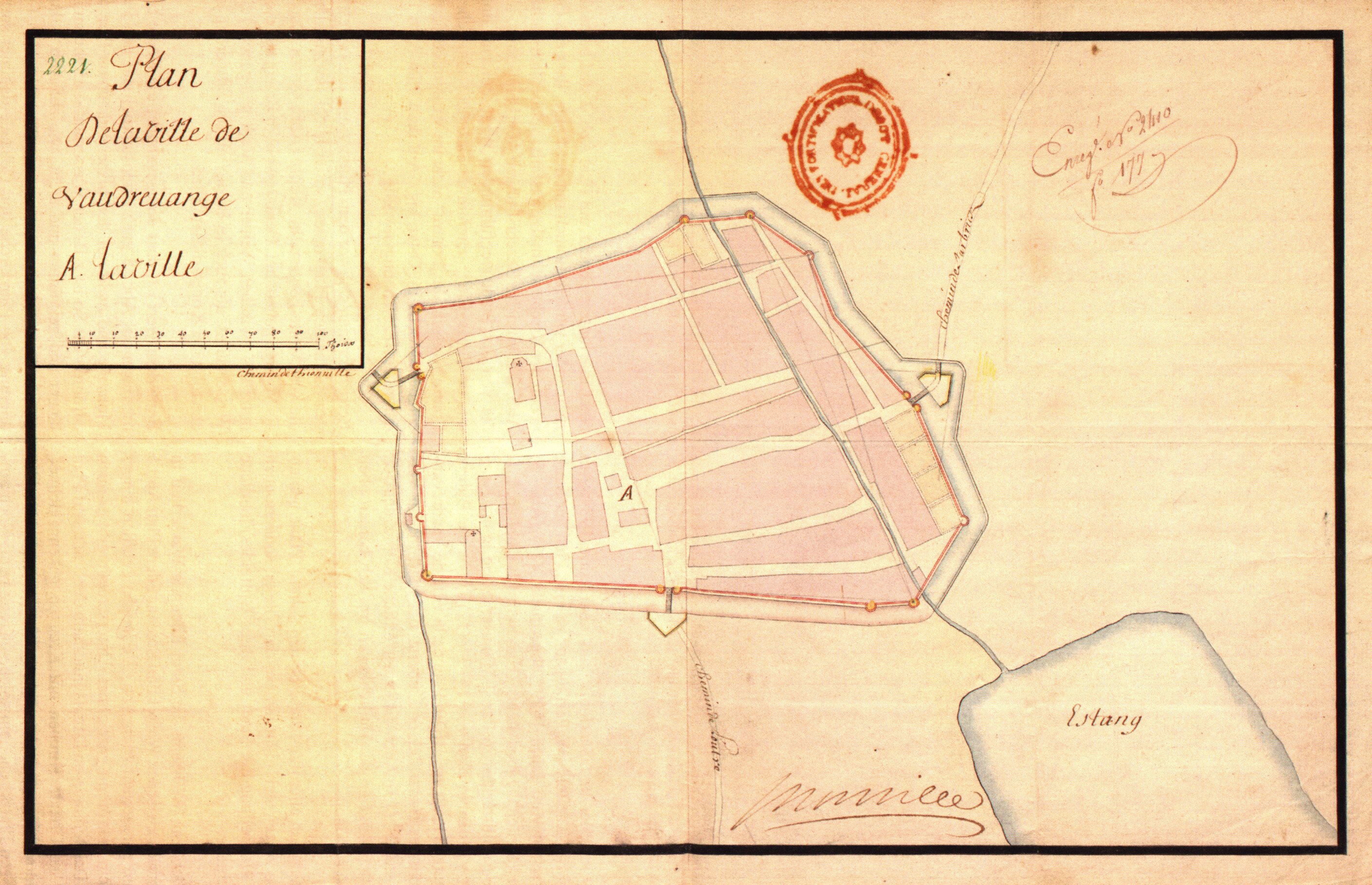 Map showing Wallerfangen in 1679, so-called "Map by Monville"